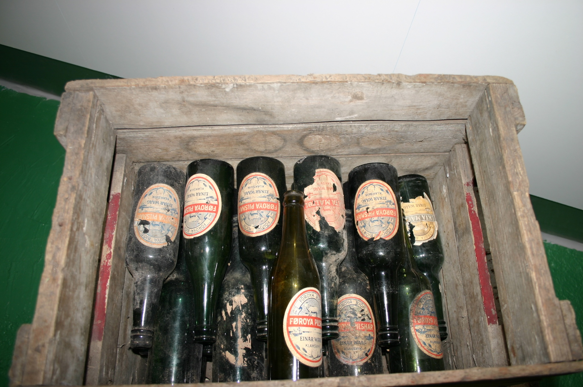 Föroya Bjór, Faroe Islands: Old beer bottles